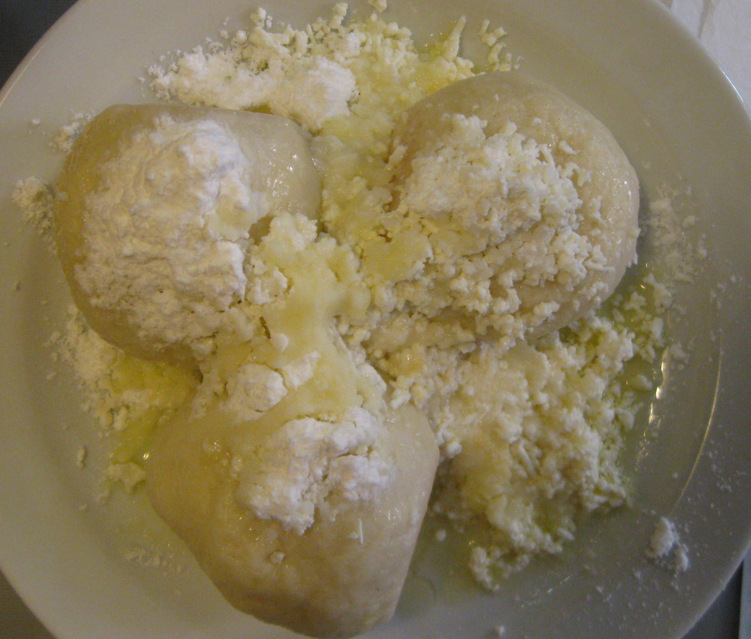 Czech fruit dumplings covered by cottage cheese.